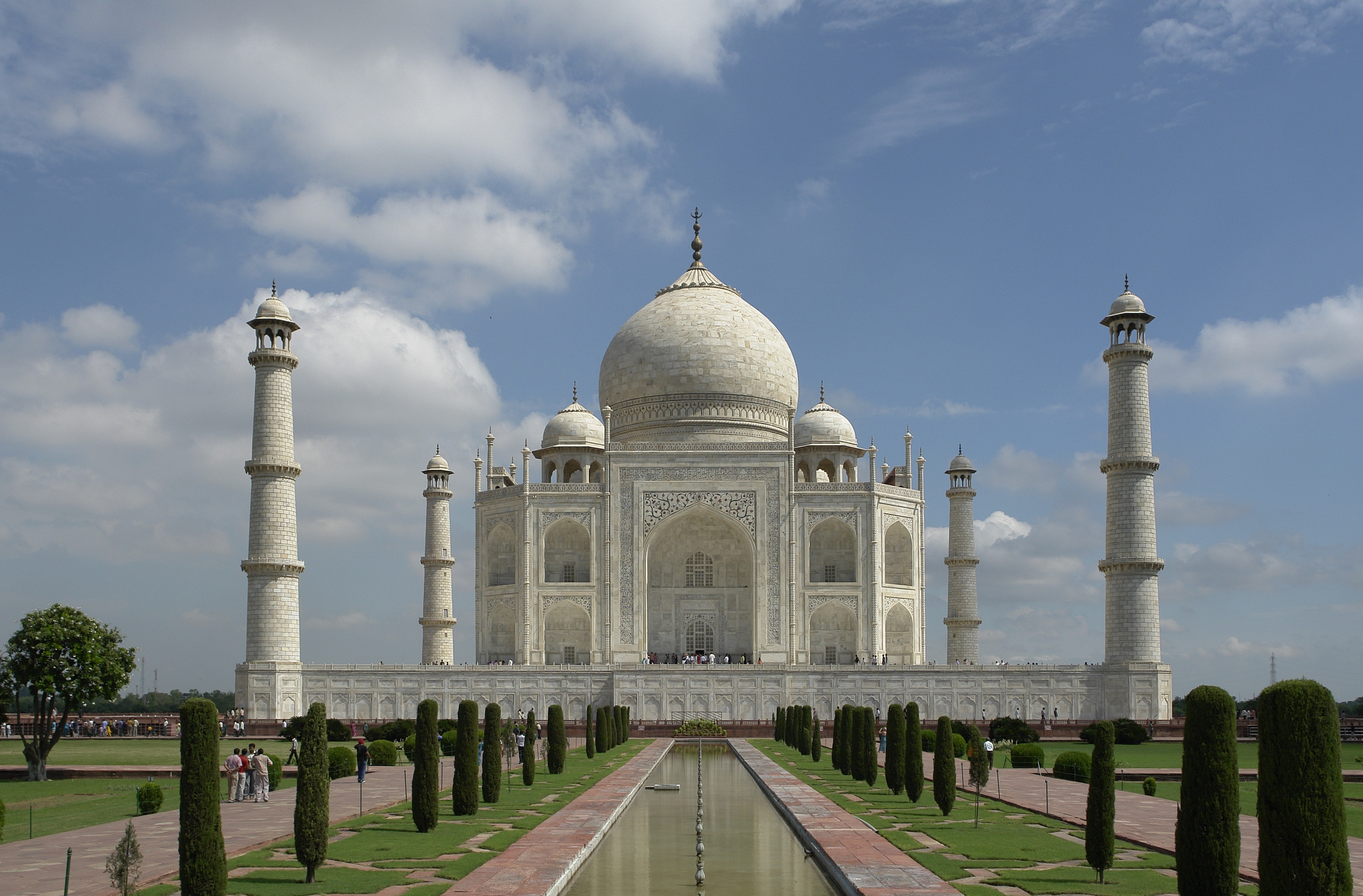 Taj Mahal, Agra, India, south face.